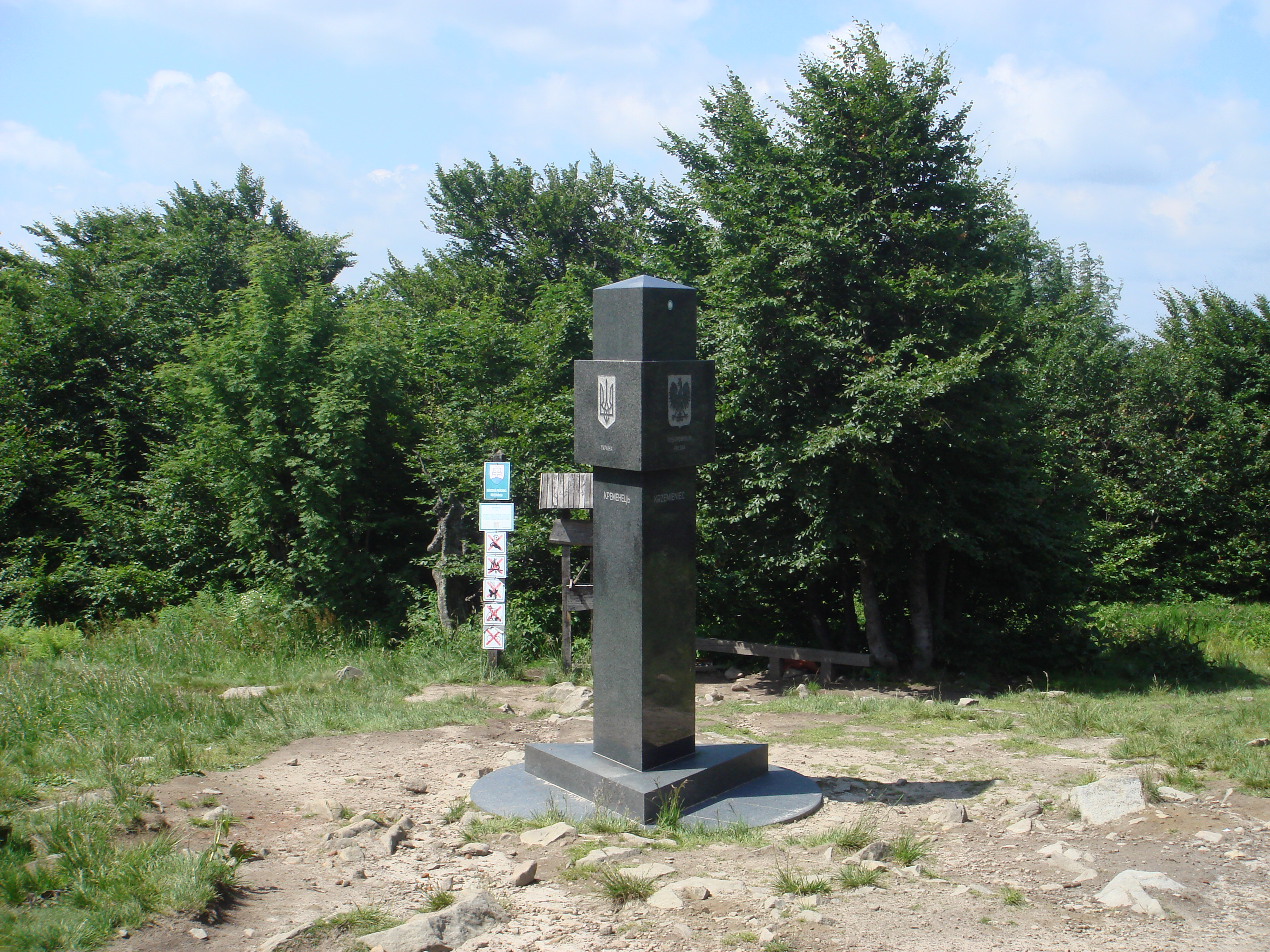 Slovak, Polish and Ukrainian border tripoint Kremenec/Krzemieniec/Кременець, the most eastern point of Slovakia and the former most eastern point of Czechoslovakia after the annexation of the Subcarpathian Ruthenia by the Soviet Union in 1945 (view from the Polish-Ukrainian border).